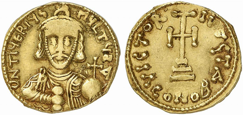 Tiberius Petasius. 728 or 730/731. Solidus (Gold, 4.03 g 6), Blera (in Latium, near Rome) or, perhaps more likely, Naples. TIUERIUS MULTUS A Facing bust of Tiberius, wearing chlamys and a diadem with cross over a circlet, holding globus cruciger in his left hand and akakia in his right. Rev. VICTOR.IVTGTA Cross potent on base and two steps. F. Füeg, “Byzanz: Zu Prägungen aus dem 8. bis 11. Jahrhundert, Teil 1,” SM 196, 1999, 73, A (this piece cited). Nomos 2, Lot: 228. Ex Stack’s, 12 January 2009, 3179 and Vecchi 5, 5 March 1997, 1183.